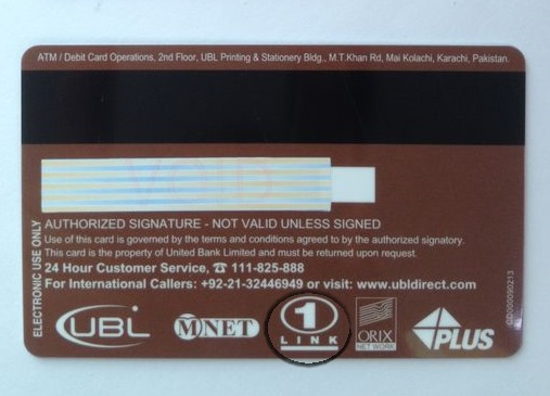 1Link logo circled on the back of an ATM debit card issued by UBL